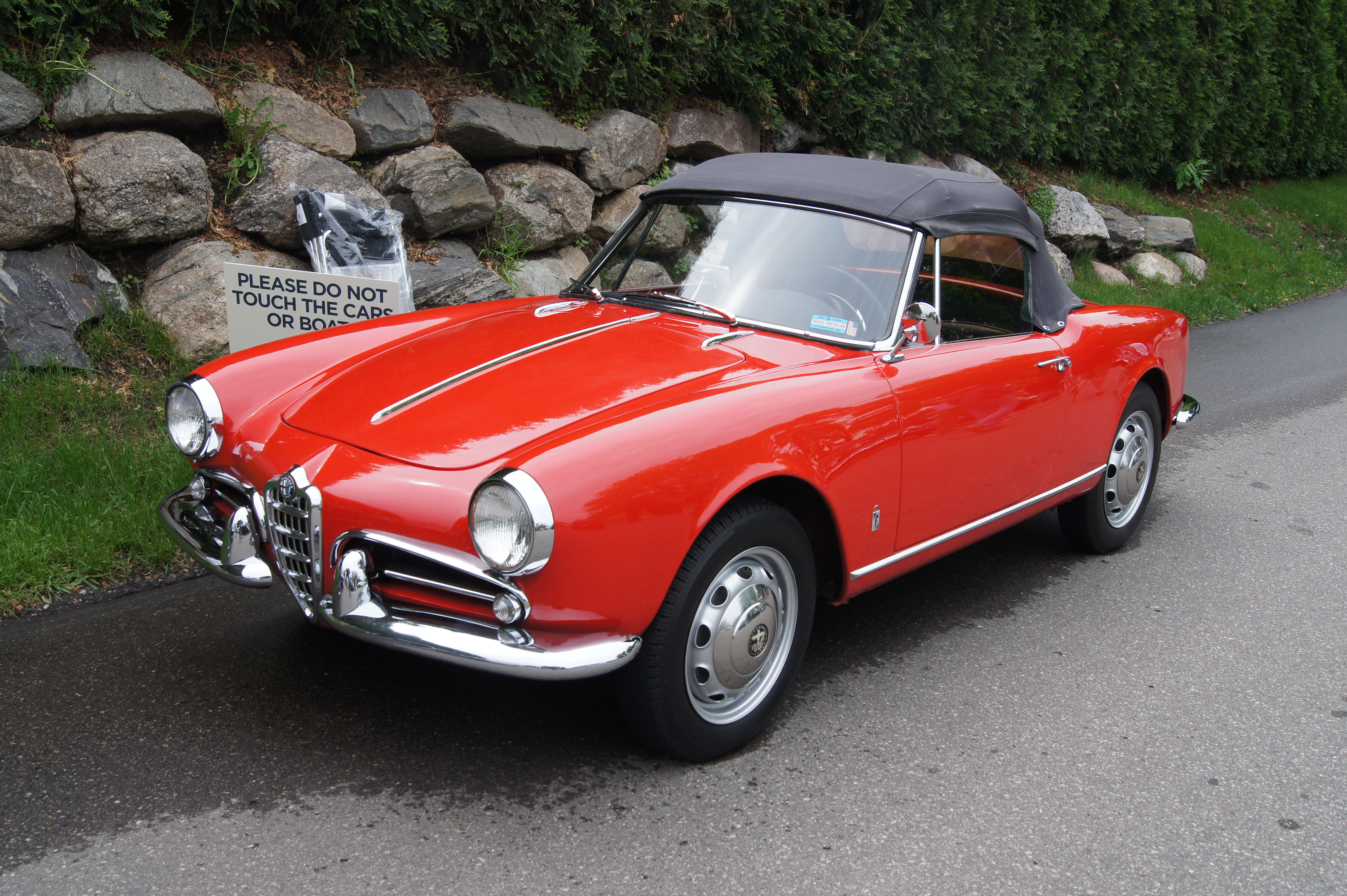 2nd Annual 10,000 Lakes Concours d'Elegance to Benefit Courage Center Foundation June 1, 2014. Excelsior Commons, Excelsior, Minnesota.